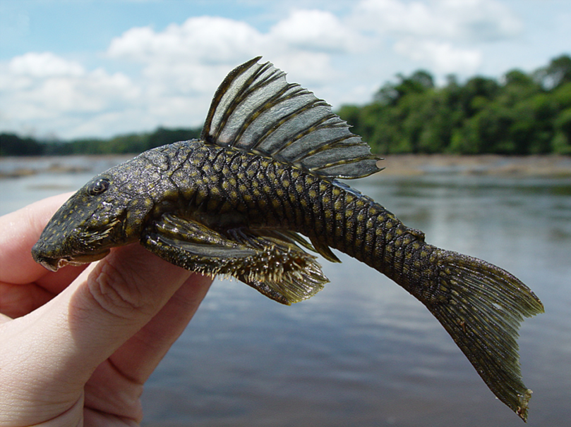 Live-color photographs of Guyanancistrus longispinis, MHNG 2680.100, French Guiana: Oyapock River at Alikoto (R. Covain)